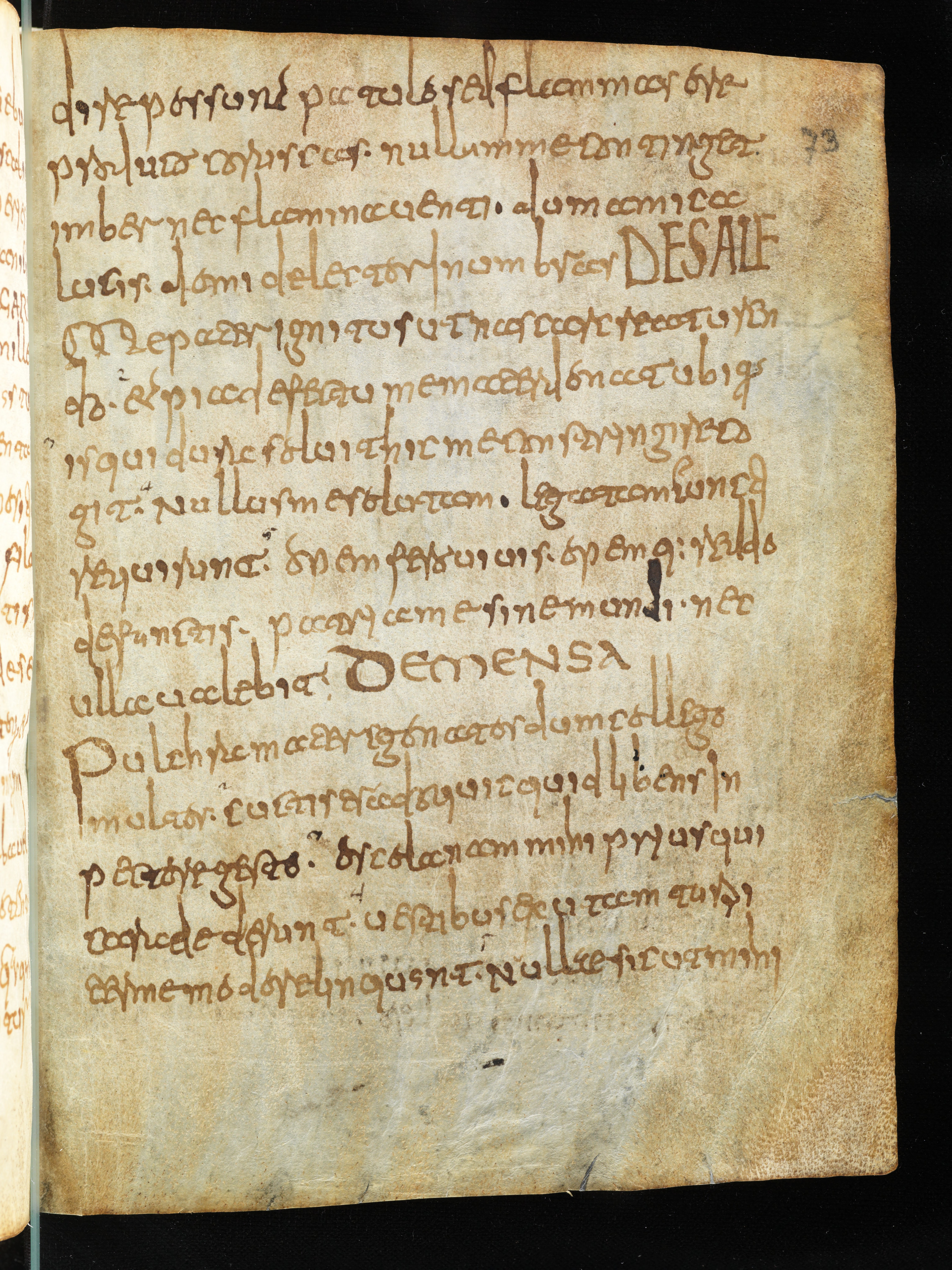 Bern, Burgerbibliothek, Cod. 611, f. 73v – two of the Bern Riddles ("De sale" 'salt' and "De mensa" 'table'), from an early eighth-century Merovingian collection of grammatical, patristic, computational and medical writings. (